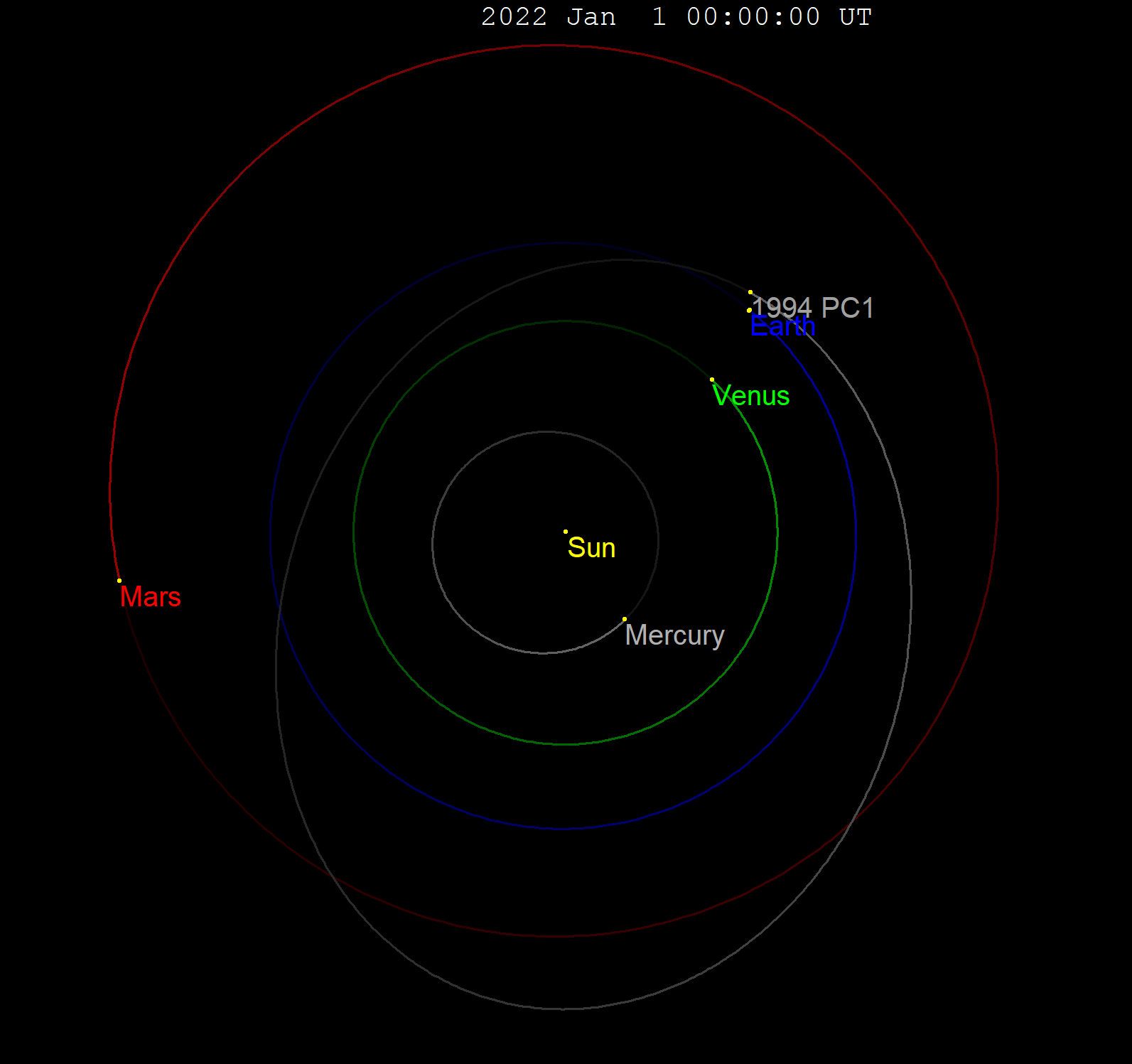 (7482) 1994 PC1 orbit in inner solar system and positions on 1/1/2022 near earth close flyby